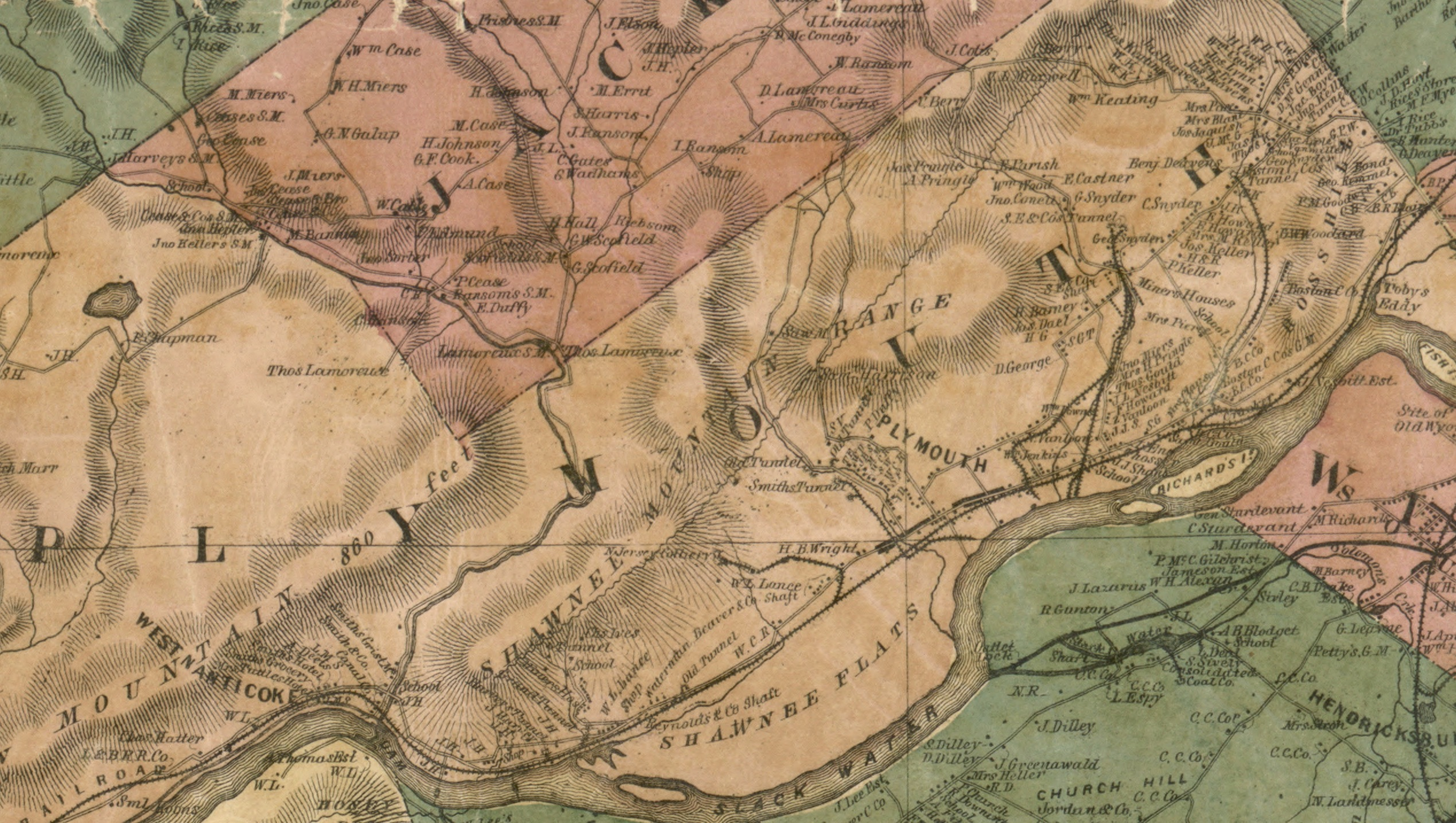 The image is an excerpt of the 1864 Luzerne County, PA Map, showing the township of Plymouth, PA